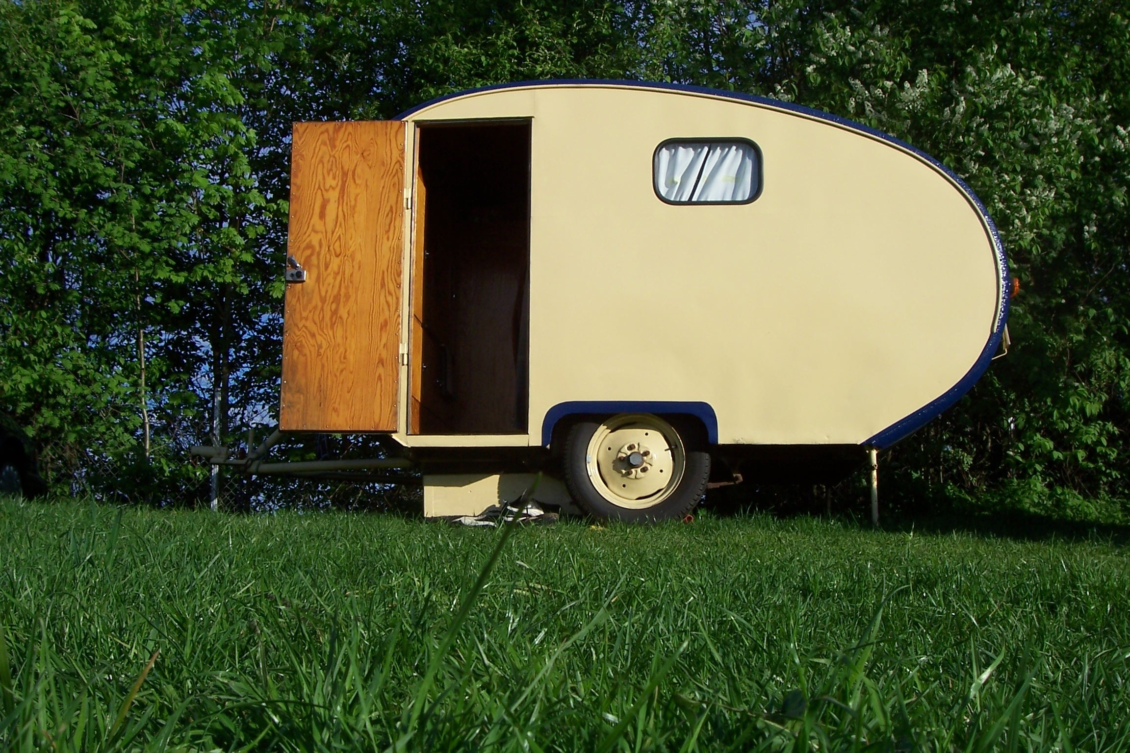 This is an restored SMV prototype